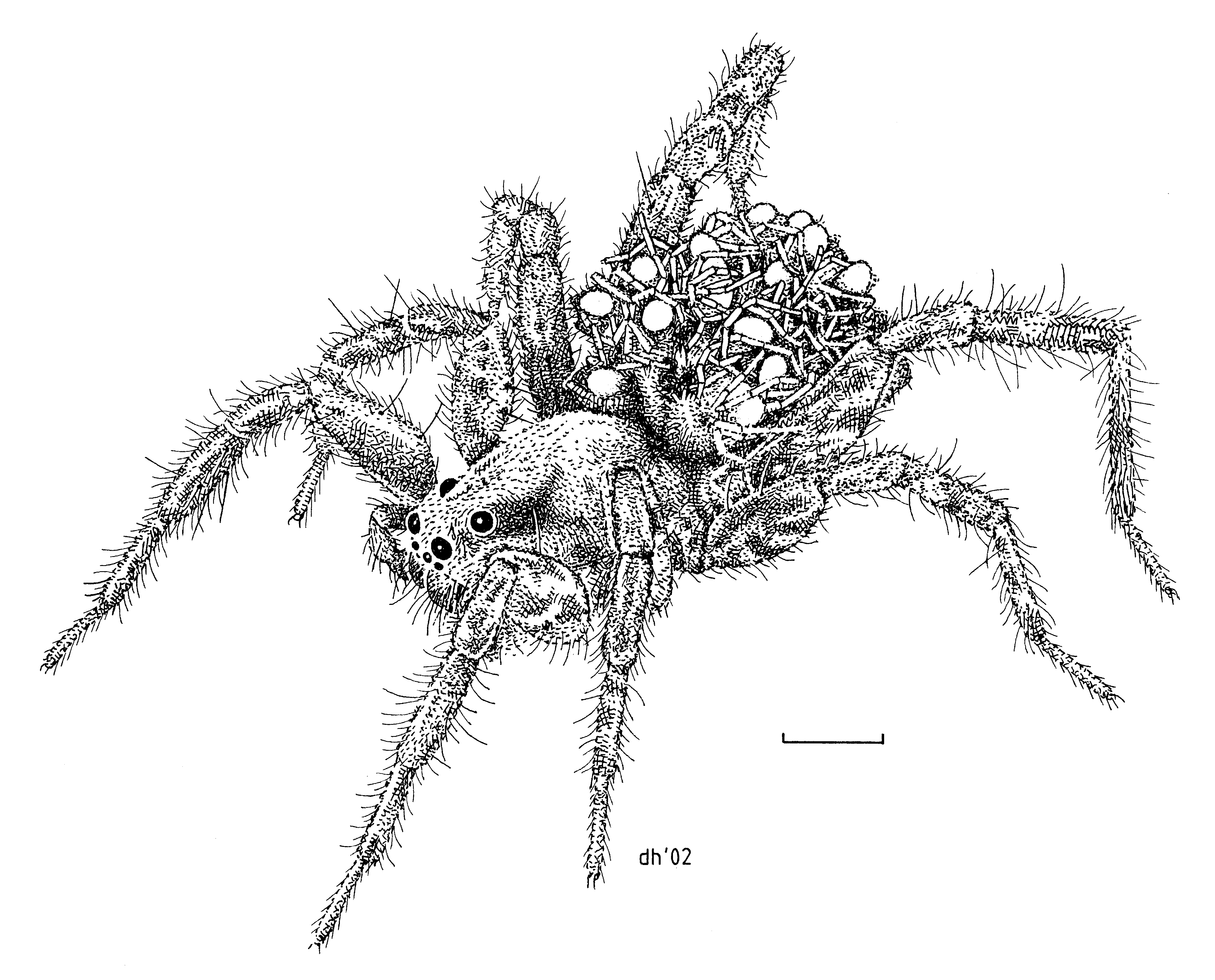 (Aranea: Lycosidae) Anoteropsis hilaris, female illustrated by Des Helmore.